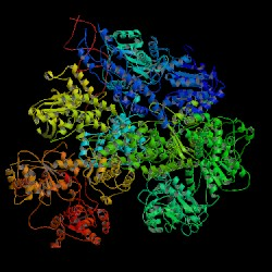 Singleton, M.R., Dillingham, M.S., Gaudier, M., Kowalczykowski, S.C., Wigley, D.B. Crystal Structure of RecBCD Enzyme Reveals a Machine for Processing DNA Breaks Nature v432 pp.7015 , 2004 Source: Image from the Protein Data Bank (PDB). "The contents of PDB are in the public domain. Online and printed resources are welcome to include PDB data and images from the Structure Explorer pages, as long as they are not for sale as commercial items themselves, and their corresponding citations are included."